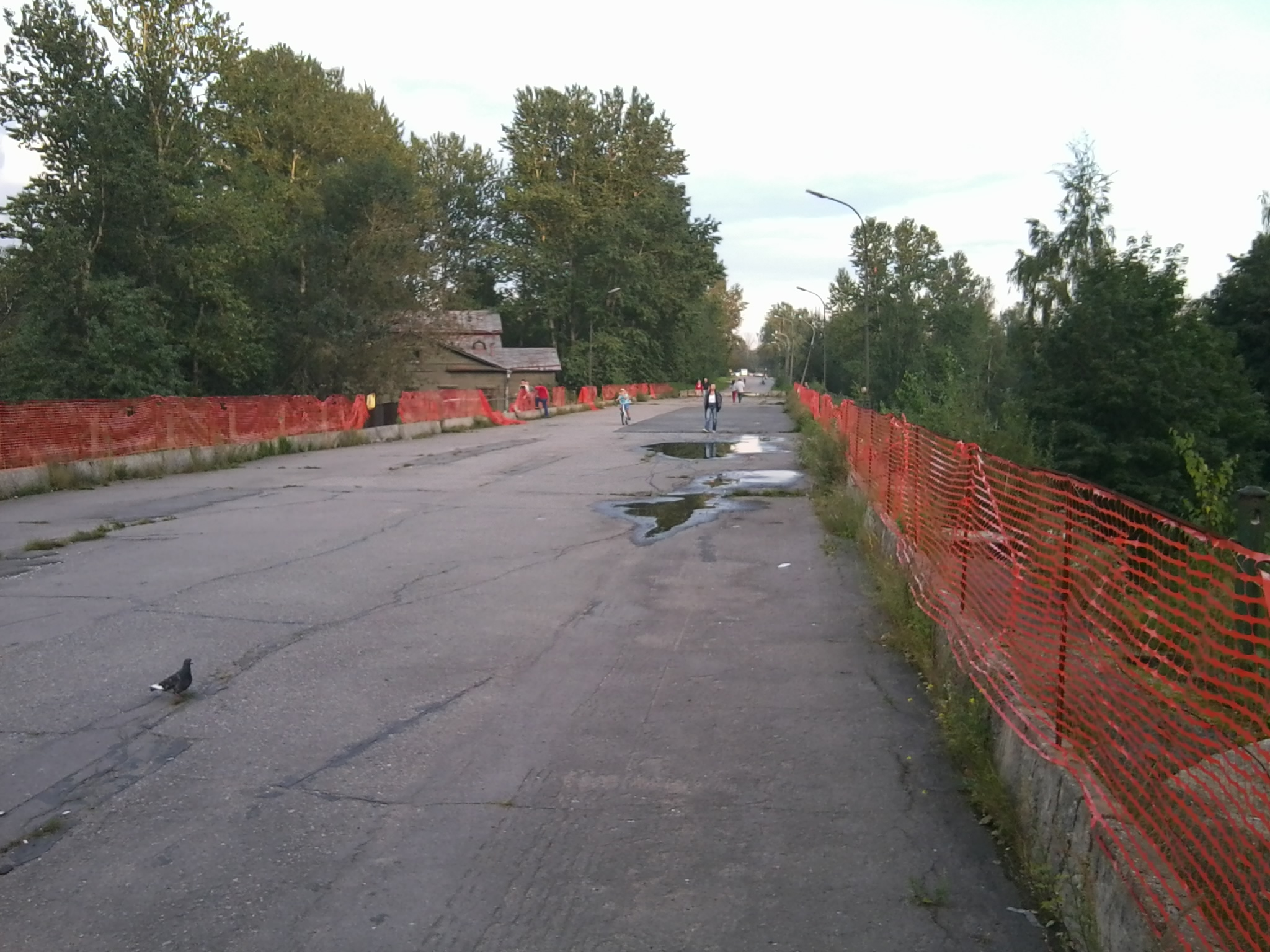 Rybatsky bridge